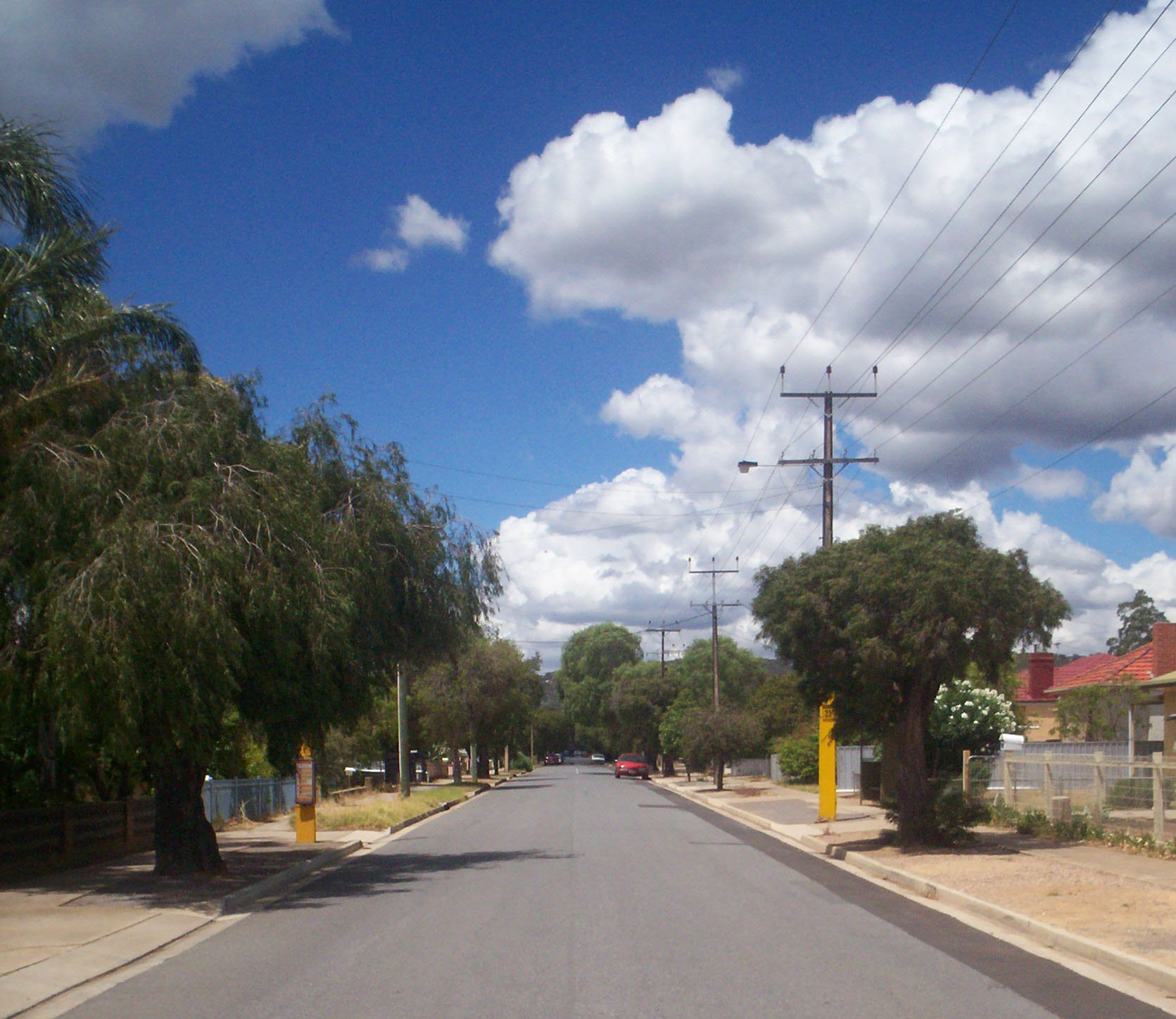 Streetscape of English Avenue in Clovelly Park, looking east towards South Road Clovelly Park, South Australia